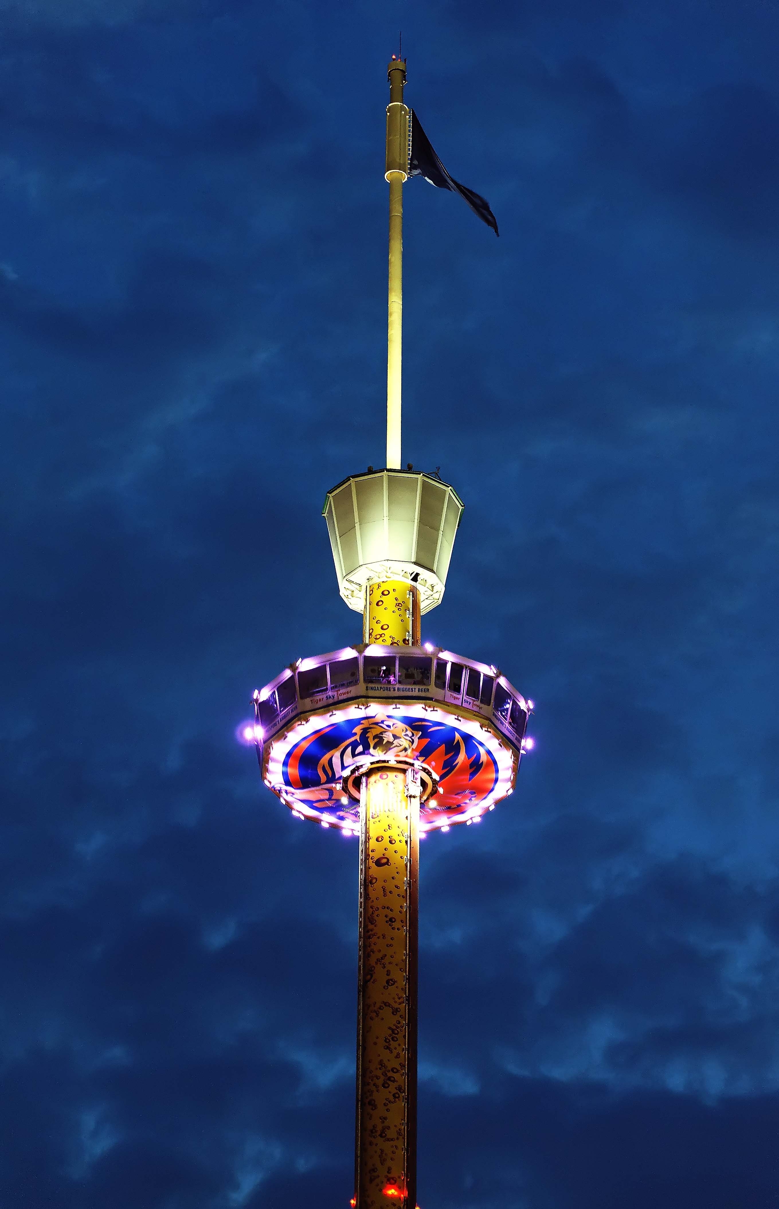 Tiger Sky Tower during nighttime.